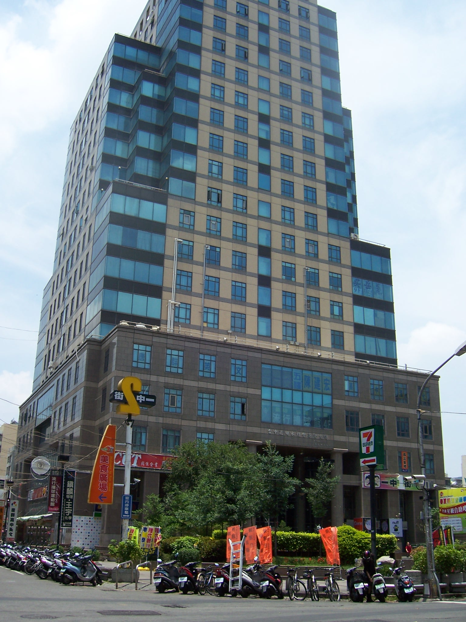 The Zun-Shien Building of Taichung Irrigation Association（briefly named "shuei-Li Building"）,located at the business district of Yi-Zhong in North District ,Taichung City, Taiwan.